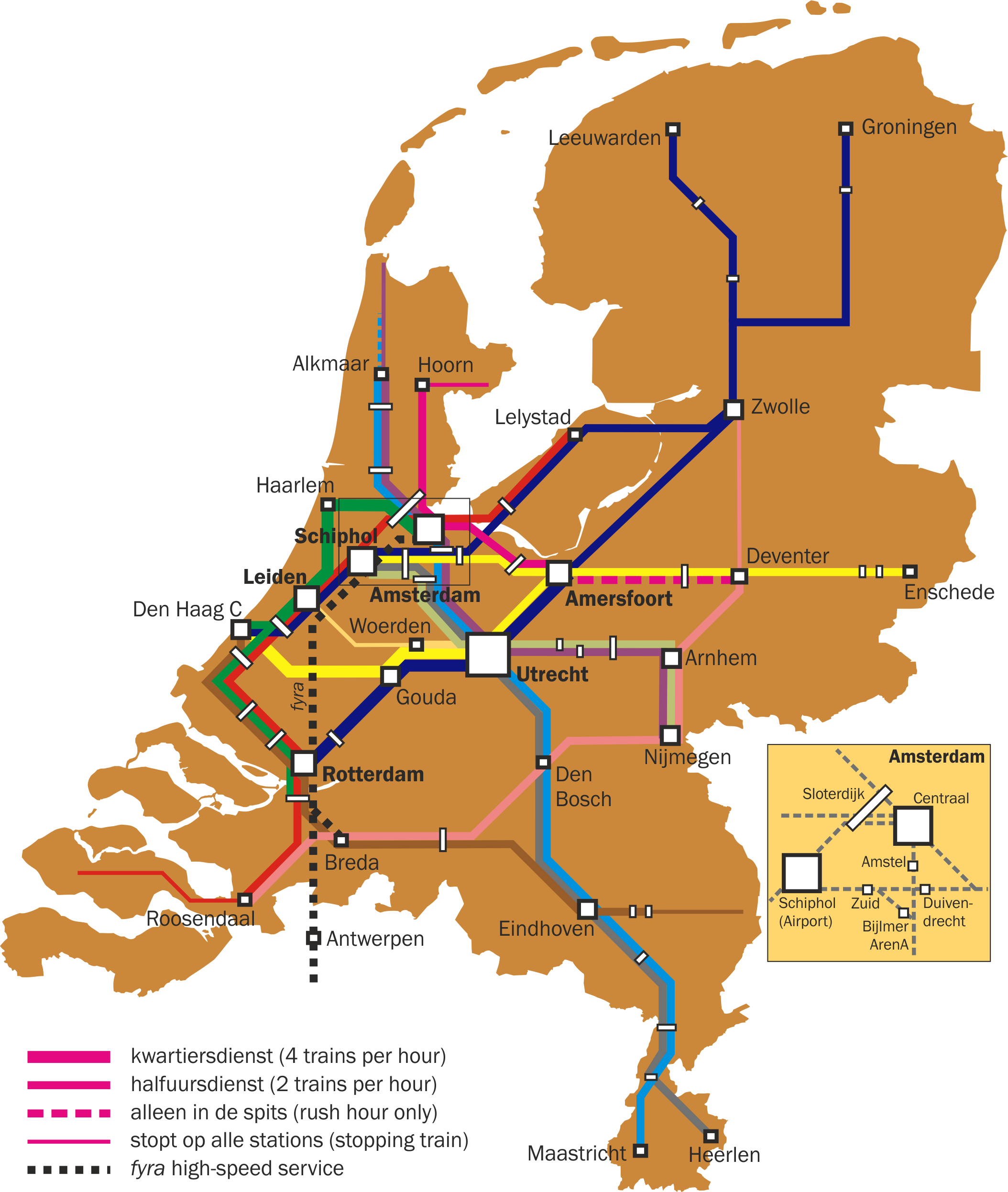 Dutch intercity network for 2013; adaptation of File:Intercitynet_NL.png. Changes not final as of March 2012, but as proposed by NS railways to consumer platform Locov.